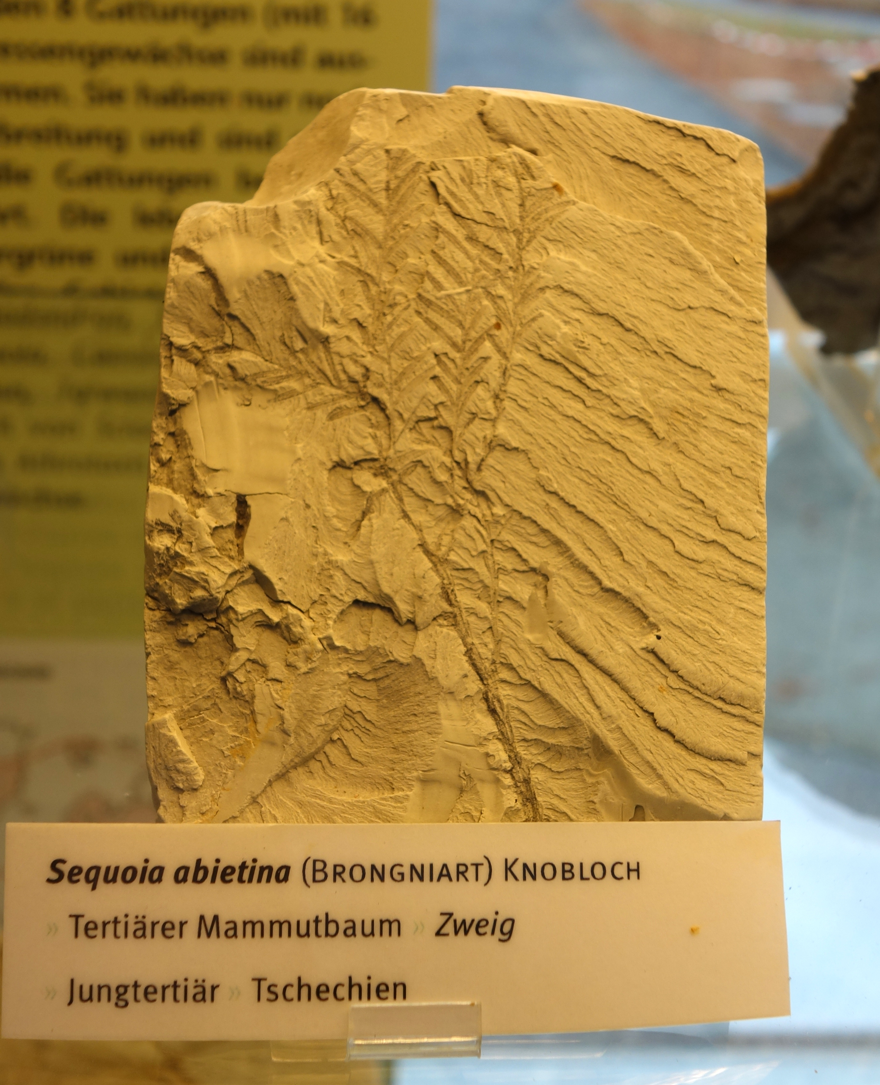 Fossil specimen in the Botanischer Garten, Dresden, Germany. Photography was permitted in the botanical garden without restriction.